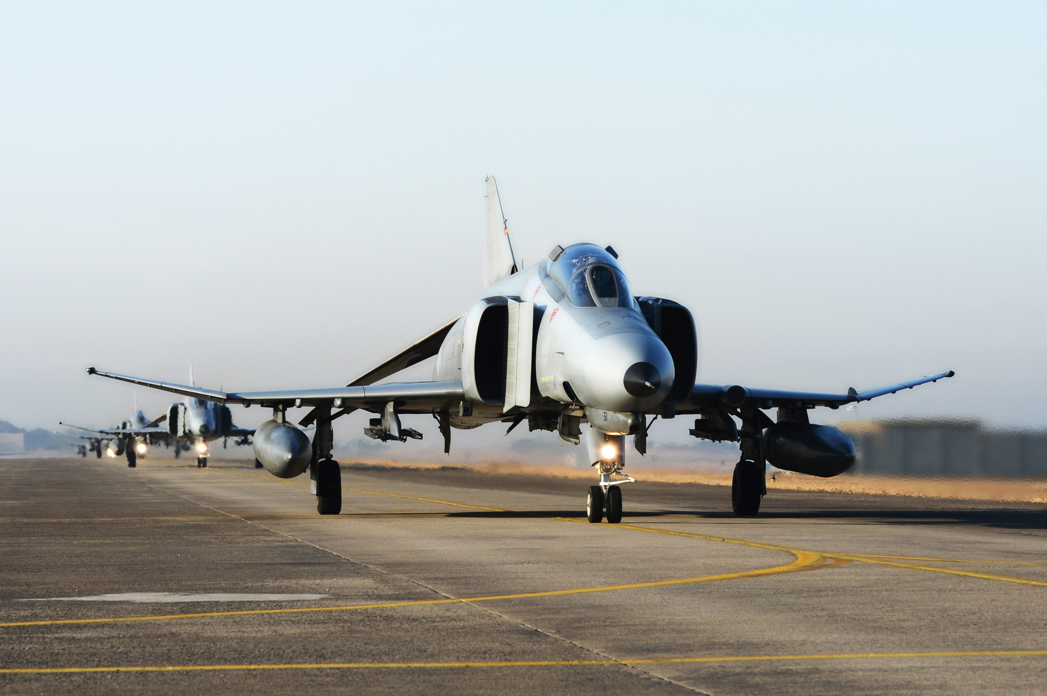 201403 공군17전투비행단 F-4E Republic of Korea Air Force (4)